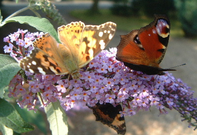 Buddleia flower with Peacock and Painted Lady butterflies.